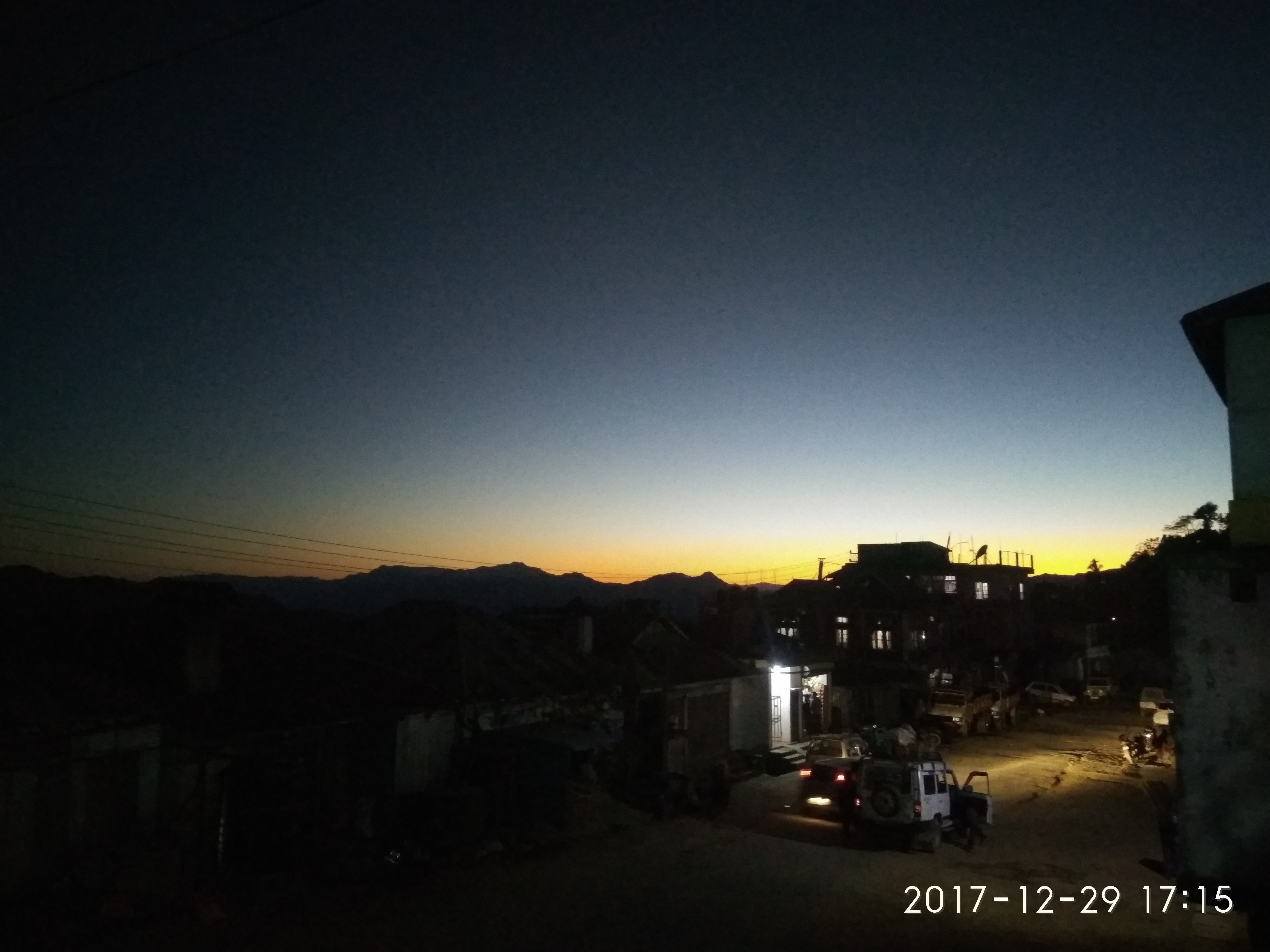 Phullen is a sub Town in Aizawl district, in the Indian state of Mizoram. It is located 125 km towards east from the district headquarters Aizawl, which is also the State capital of Mizoram.